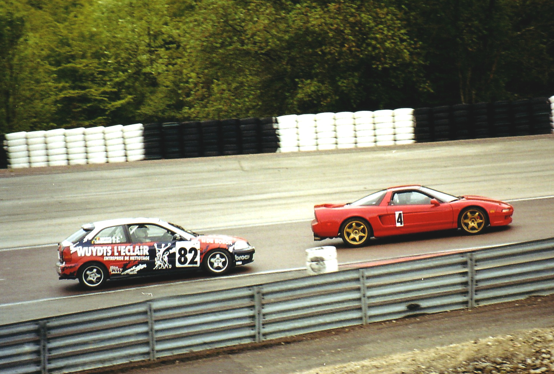 Two competitors of the European Honda trophy battling in the Parabolique corner at the Circuit de Dijon-Prenois